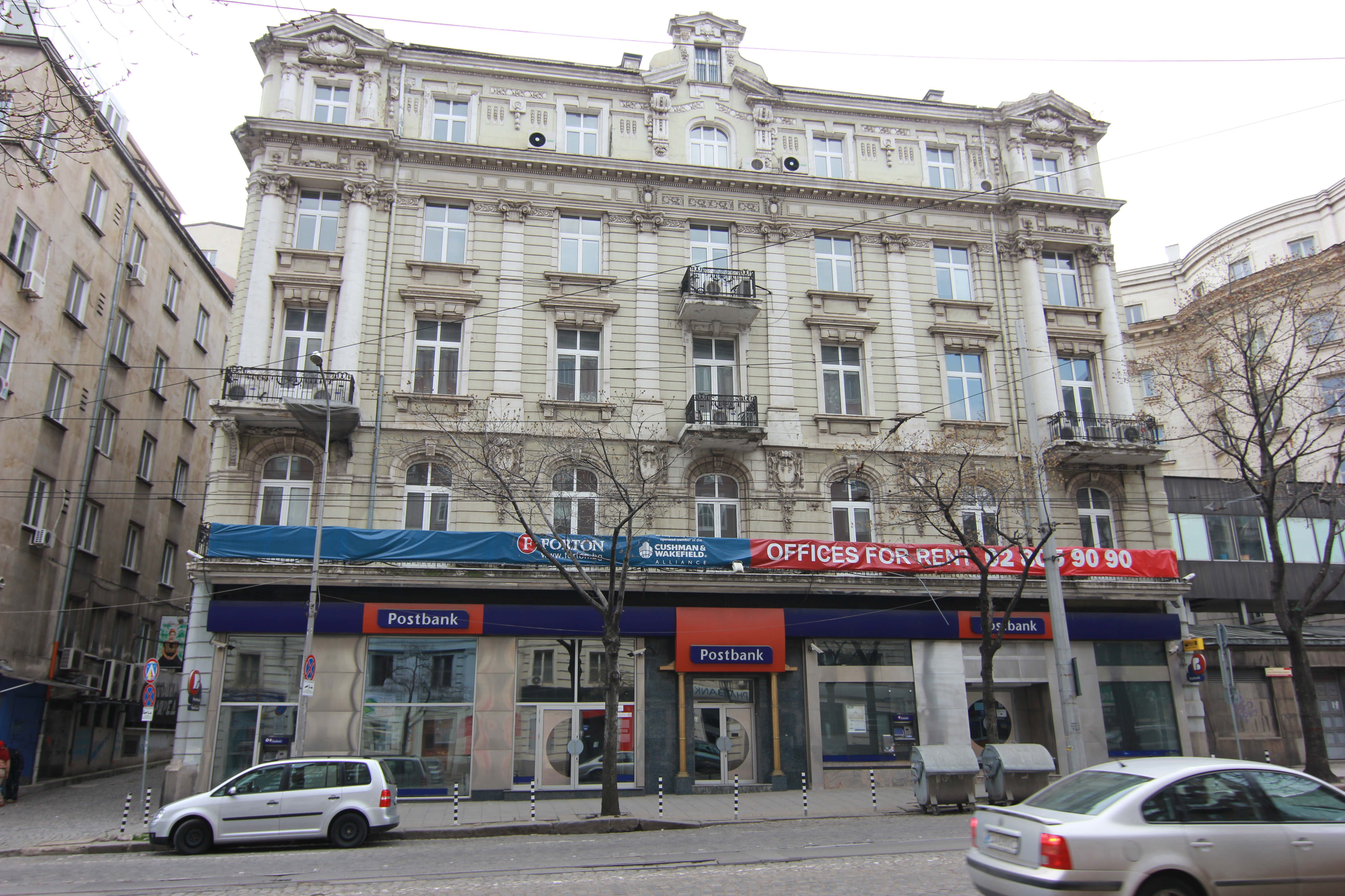 Dondukov office of postbank in Sofia